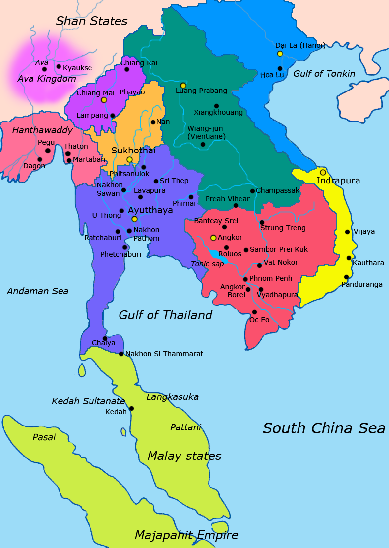 Map of Southeast Asia circa 1400 CE, showing Khmer Empire in red, Ayutthaya Kingdom in violet, Lan Xang kingdom in teal, Sukhothai kingdom in orange, Champa in yellow, Kingdom of Lanna in purple, Dai Viet in blue and surrounding states.